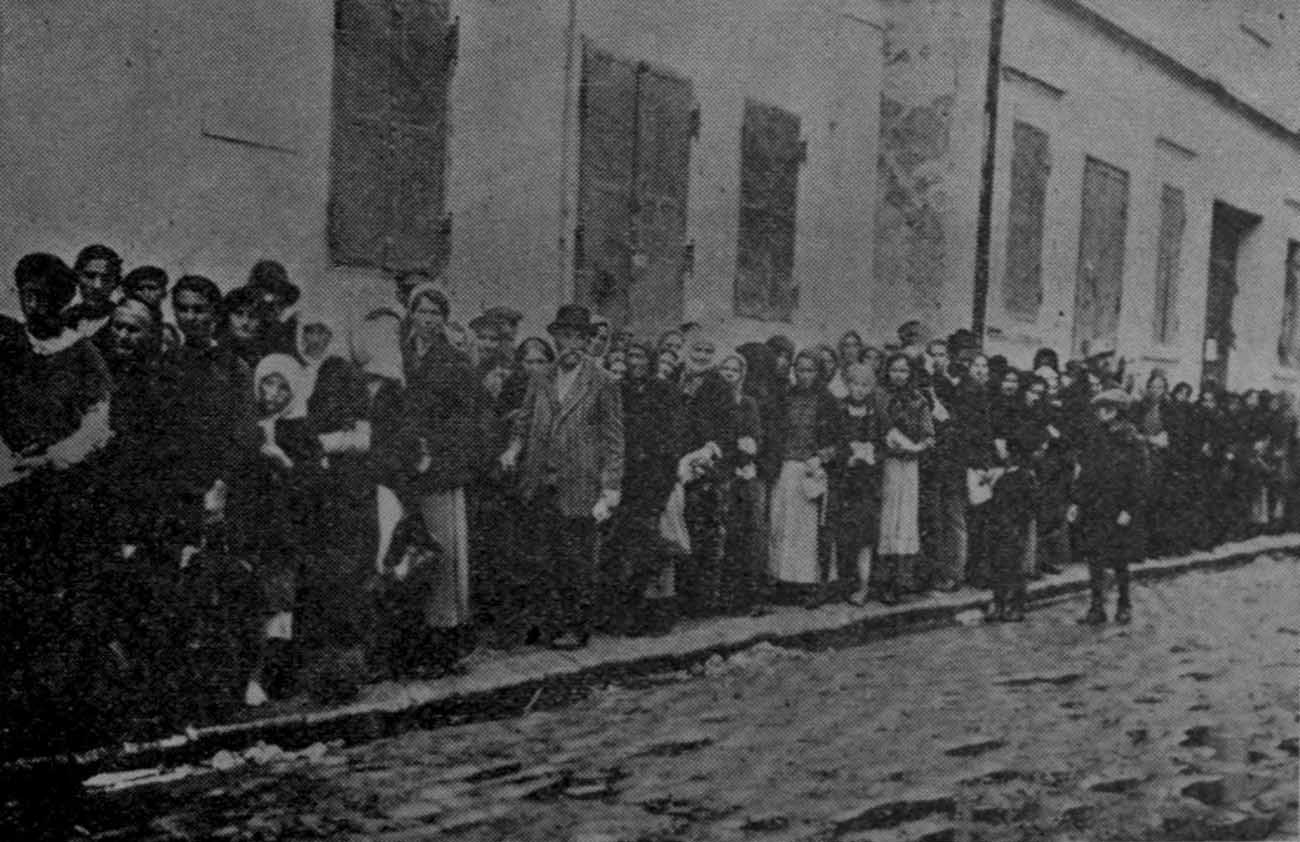 "Serbian Refugees Waiting for Food."